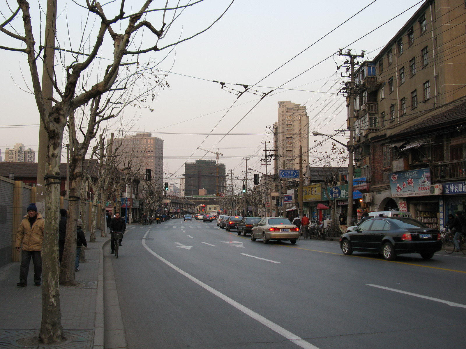 Xinzha Road, Jing'an District